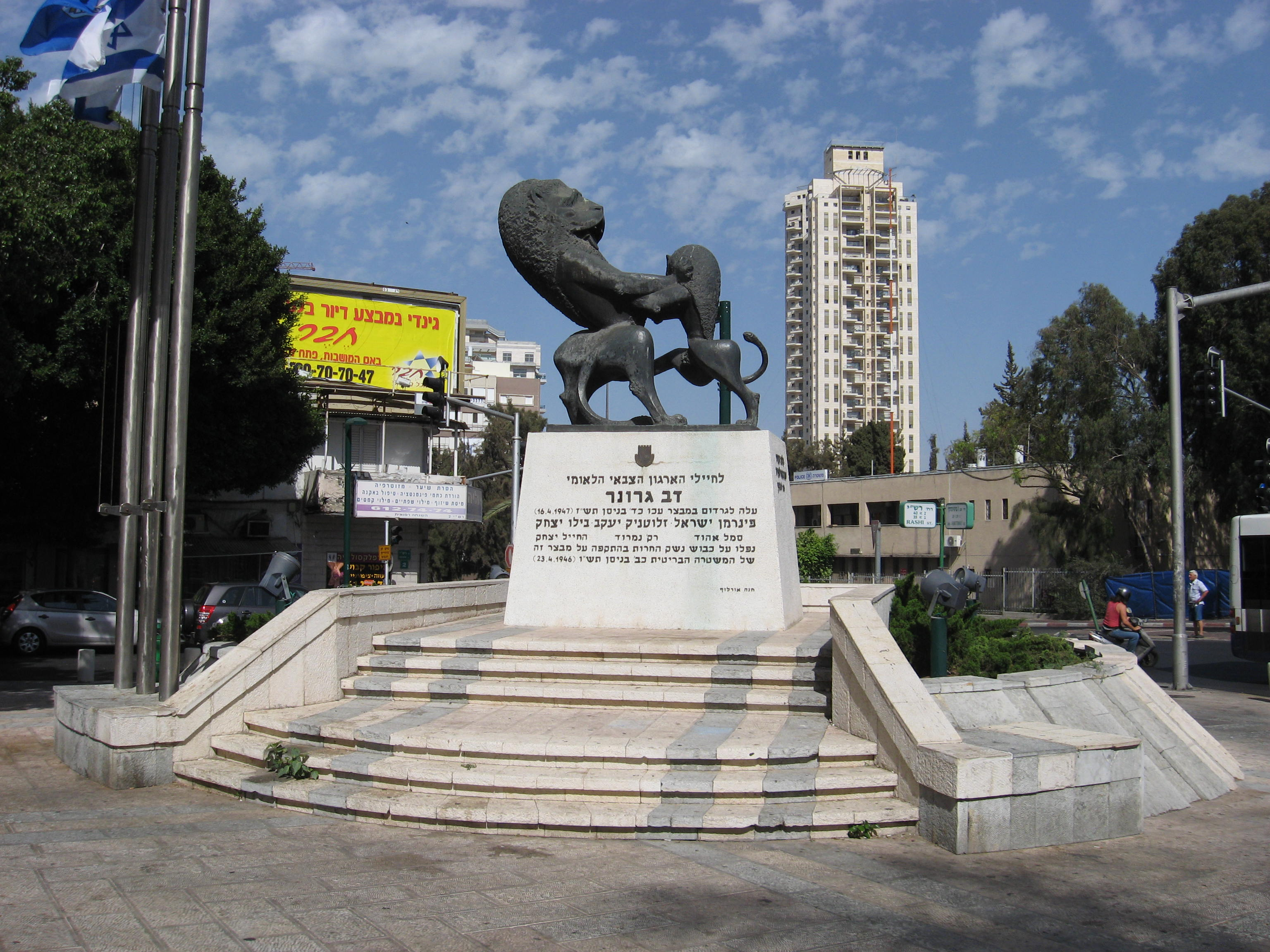 Monument to Dov Gruner and his Etzel comrades in Ramat Gan